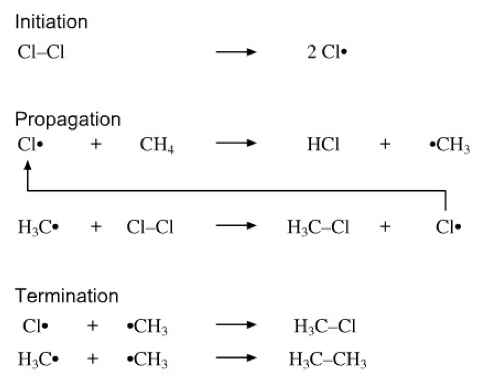 fdsadfs